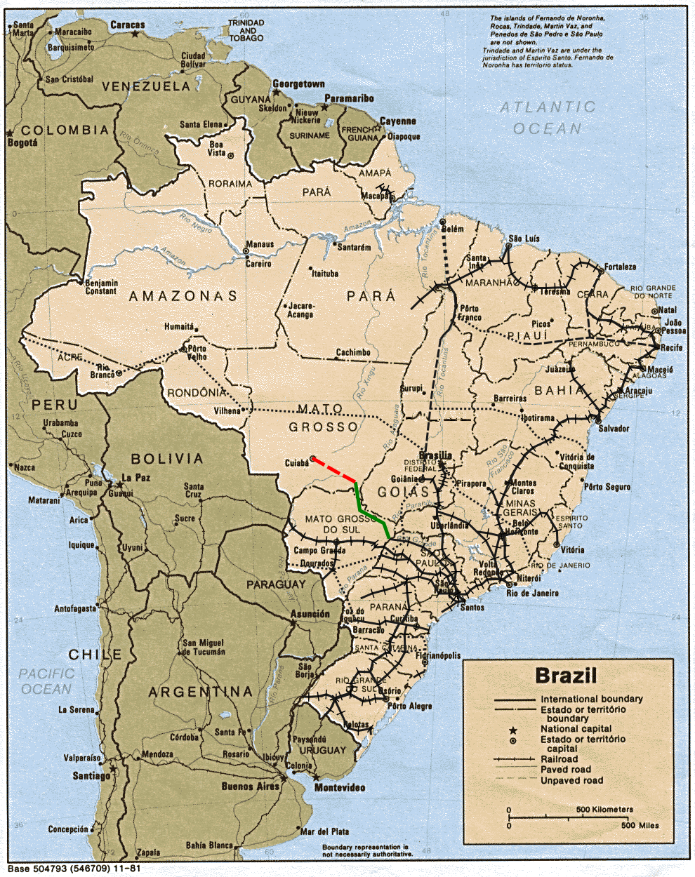 Political map of Brasil